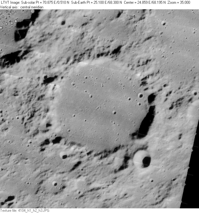 Crater Neison. Detail from Lunar Orbiter IV-104H. High resolution scans from the USGS Lunar Orbiter Digitization Project remapped to a north-up aerial view by LTVT.